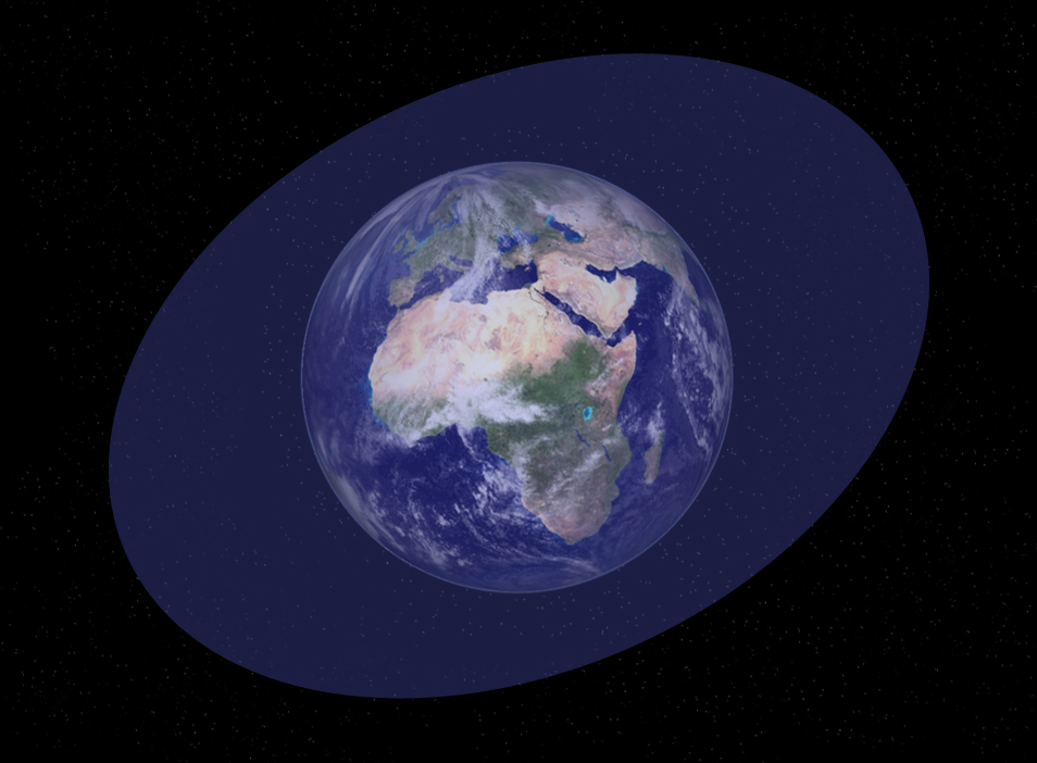 Atmosphere of the Earth